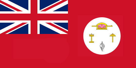 Civil ensign of the Kingdom of Cochin This work is in the public domain in India because its term of copyright has expired. The Indian Copyright Act applies in India, to works first published in India. According to The Indian Copyright Act, 1957 (Chapter V Section 25), Anonymous works, photographs, cinematographic works, sound recordings, government works, and works of corporate authorship or of international organizations enter the public domain 60 years after the date on which they were first published, counted from the beginning of the following calendar year (ie. as of 2018, works published prior to 1 January 1958 are considered public domain). Posthumous works (other than those above) enter the public domain after 60 years from publication date. Any other kind of work enters the public domain 60 years after the author's death. Text of laws, judicial opinions, and other government reports are free from copyright. Photographs created before 1958 are in the public domain 50 years after creation, as per the Copyright Act 1911. This file may not be in the public domain outside India. The creator and year of publication are essential information and must be provided. See Wikipedia:Public domain and Wikipedia:Copyrights for more details. This image shows a flag, a coat of arms, a seal or some other official insignia. The use of such symbols is restricted in many countries. These restrictions are independent of the copyright status.